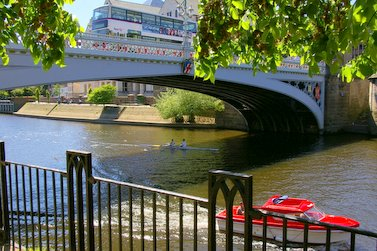 River Ouse and Lendal Bridge from Riverside Walkway.